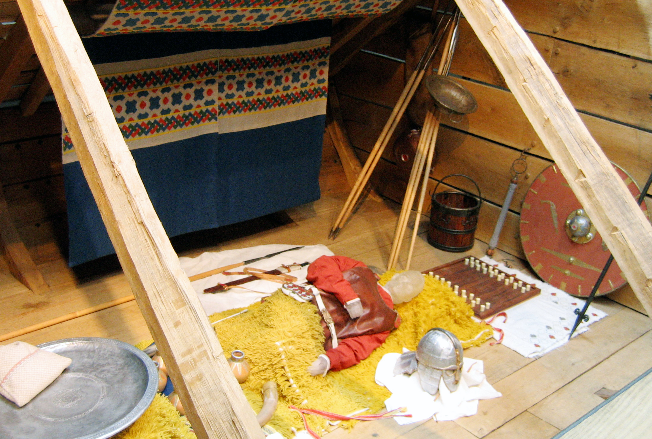 Burial chamber of the Sutton Hoo ship-burial 1, England. Reconstruction shown in the Sutton Hoo Exhibition Hall.